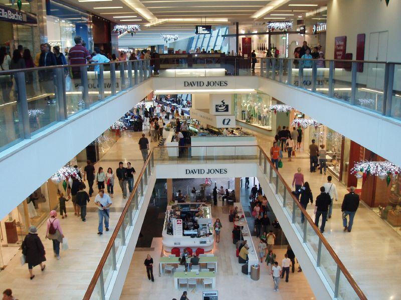 Bondi Junction Shopping Mall - Sydney, Australia